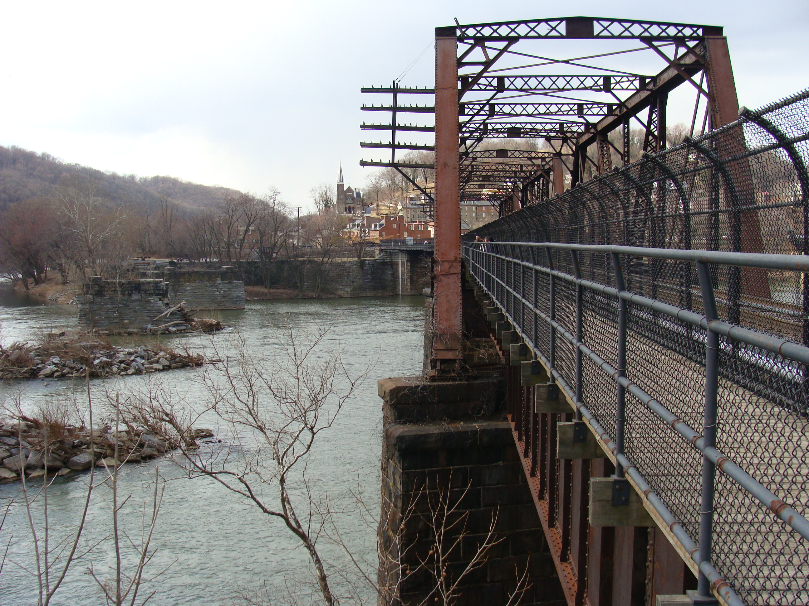 Bridge leading from Maryland into Harpers Ferry, West Virginia